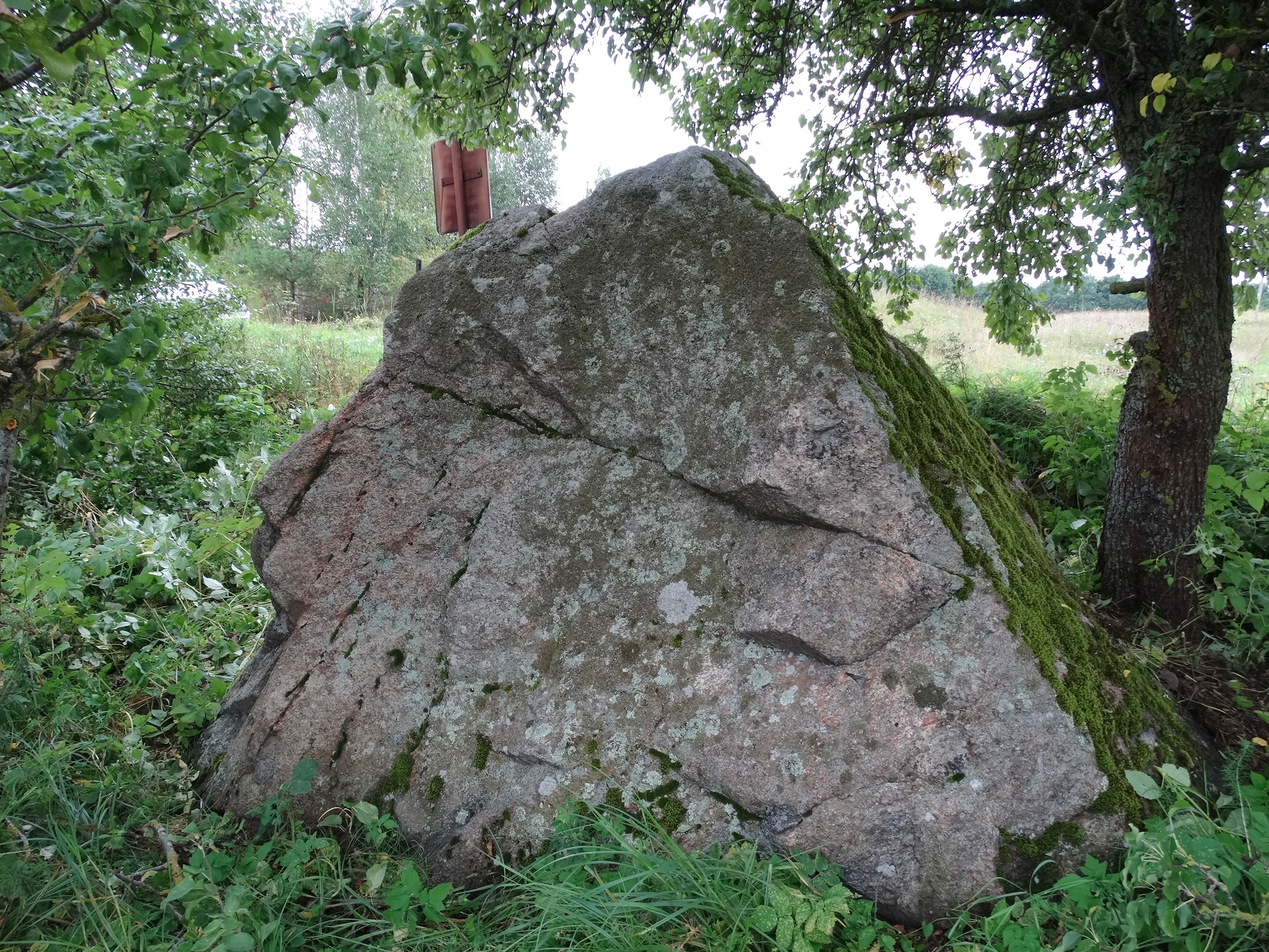 Utenis Stone, Utena district, Lithuania